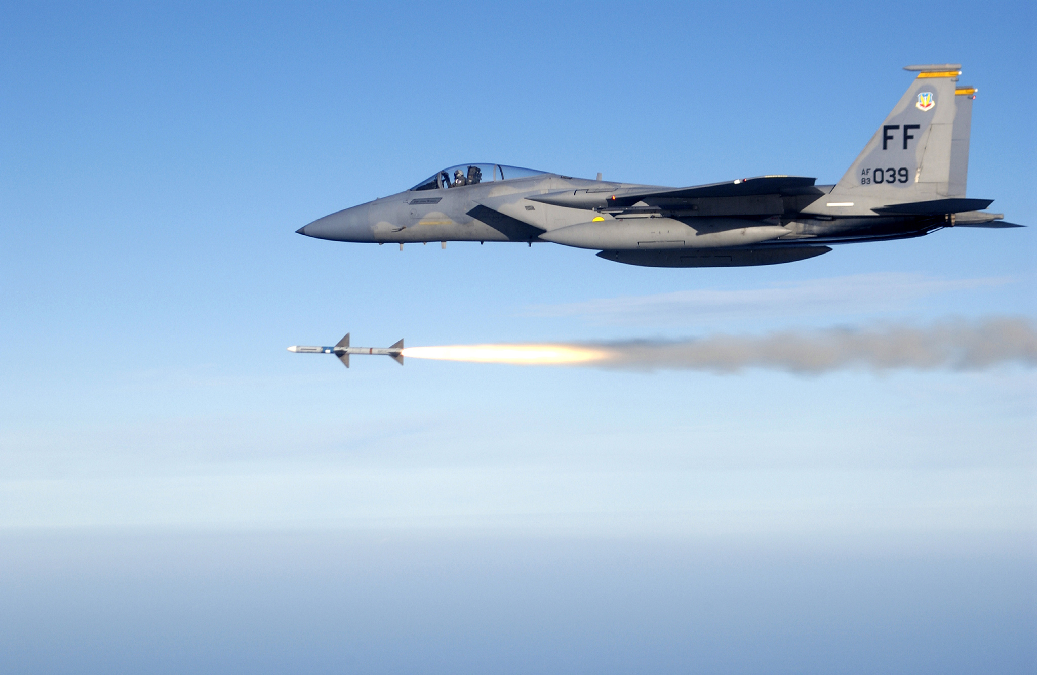 OVER THE GULF OF MEXICO First Lt. Charles Schuck fires an AIM-7 Sparrow medium range air-to-air missile from an F-15 Eagle here while supporting a Combat Archer air-to-air weapons system evaluation program mission. He and other Airmen of the 71st Fighter Squadron deployed from Langley Air Force Base, Va., to Tyndall AFB, Fla., to support the program.